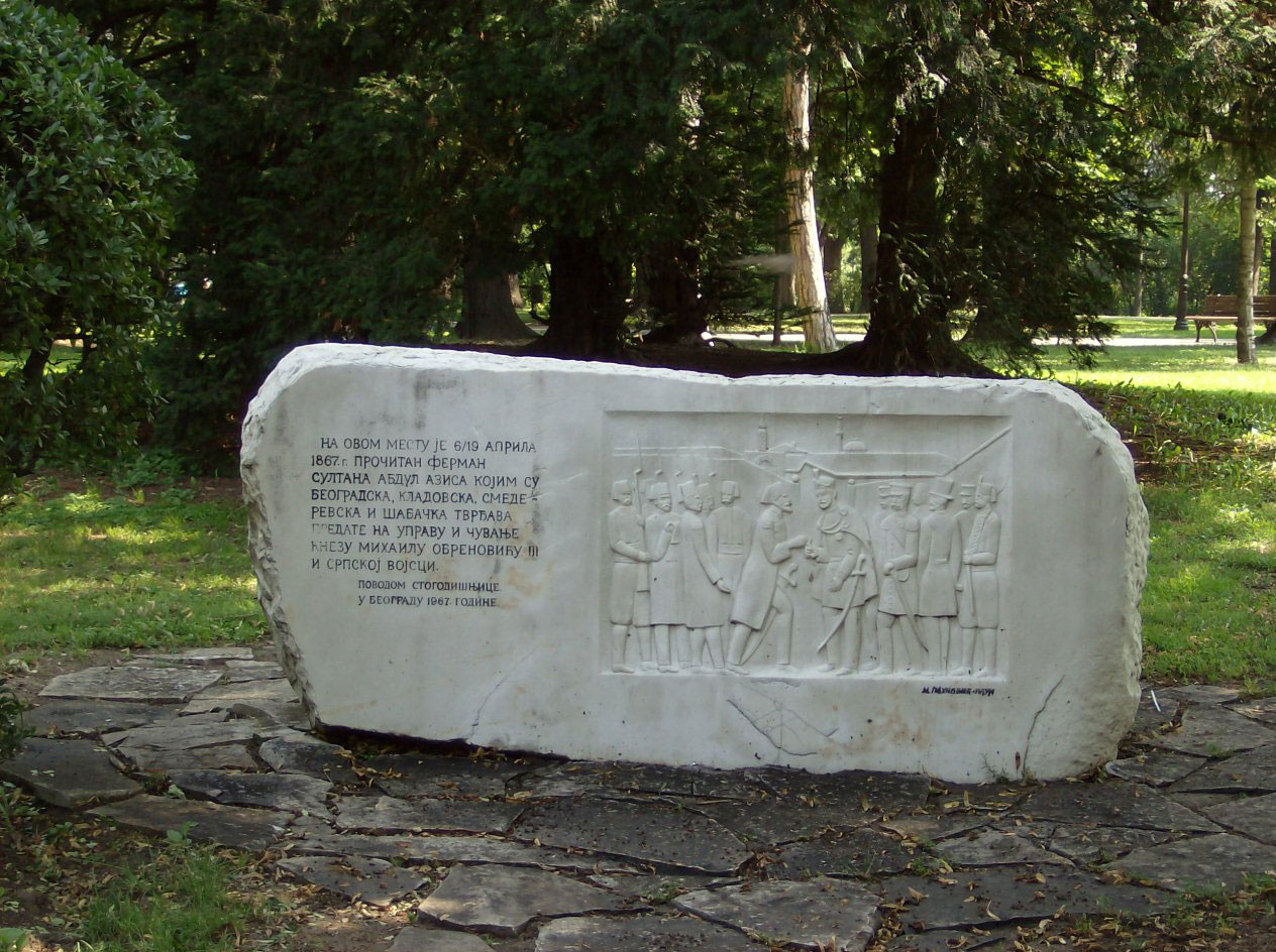 Monument of turkish